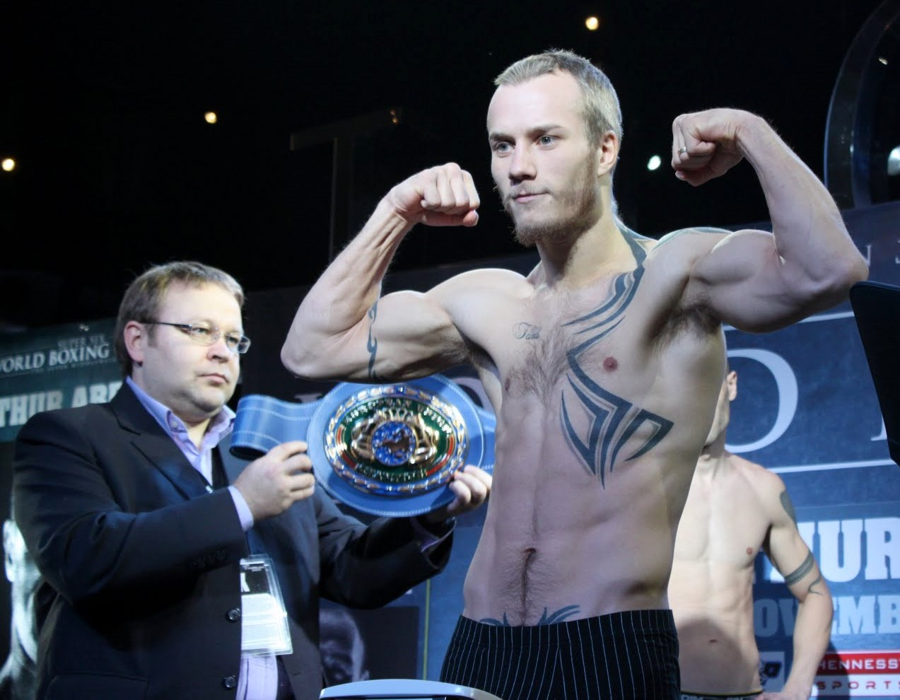 A Finnish boxer, Ville Piispanen (on the right), with his manager Pekka Maki.